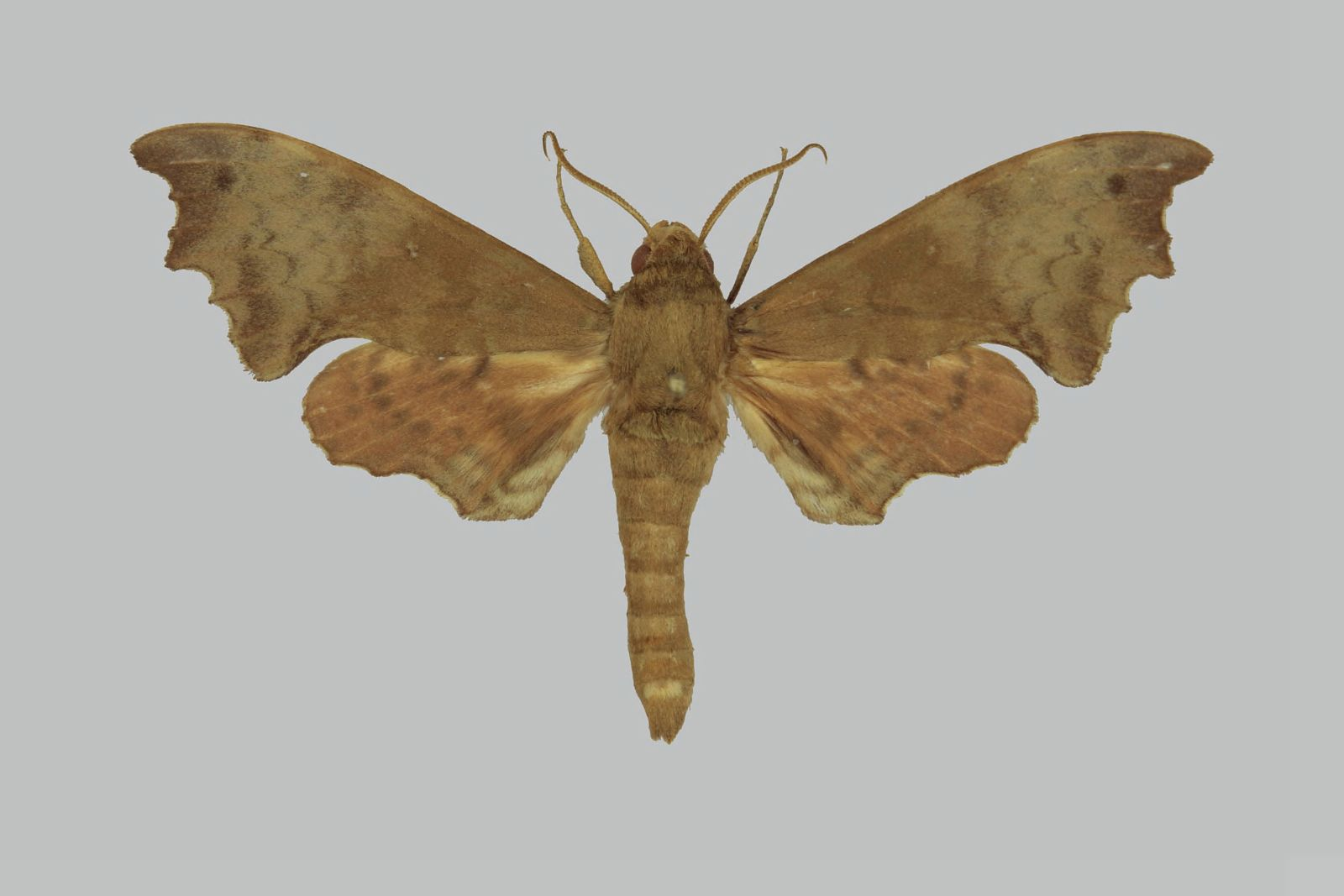 Grillotius bergeri, male, upperside. Congo Republic, Odzala Nat. Park